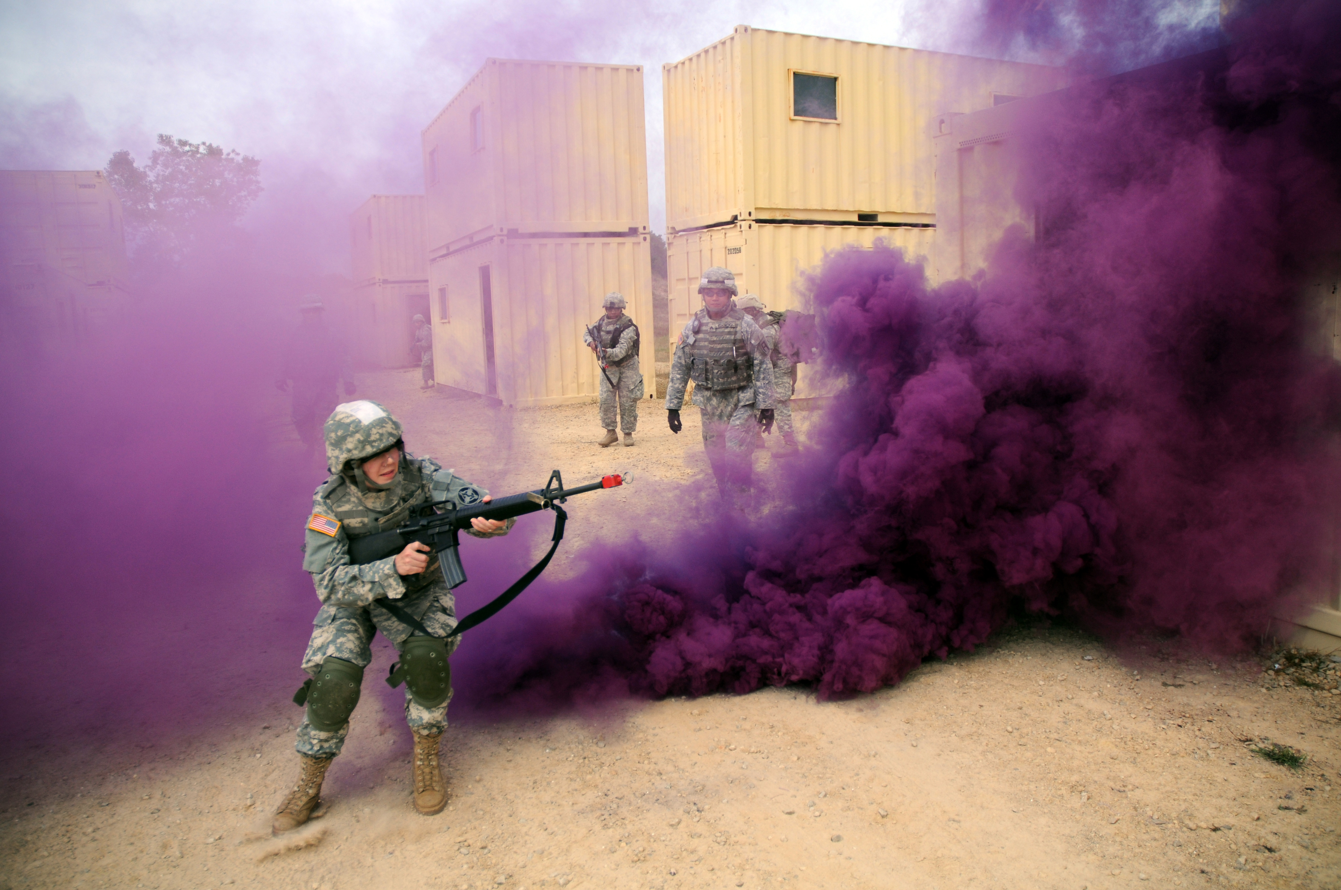 Smoke camouflages a Soldier's movements during a dismounted combat patrol at a Fort McCoy, Wis., training site.